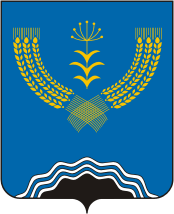 Tuimazy rayon (Bashkortostan), coat of arms